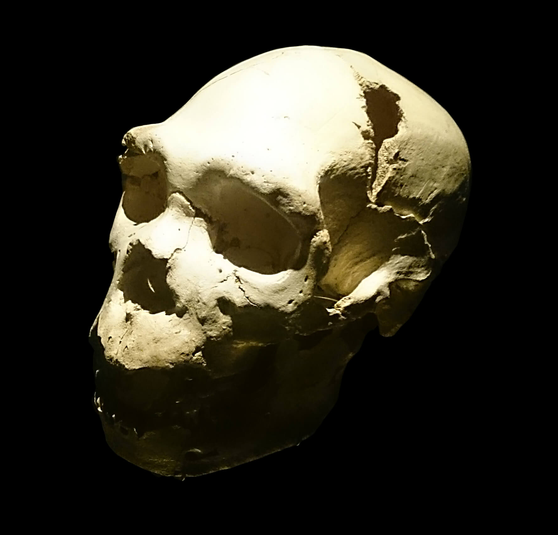 Skull 5 nicknamed 'Miguelón' discovered in the Sima de los Huesos : view of the left parietal bone impact.